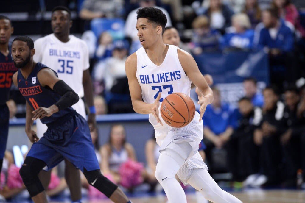 Zeke dribbling the ball for the Billikens in the 16-17 season while playing against The Dayton Flyers